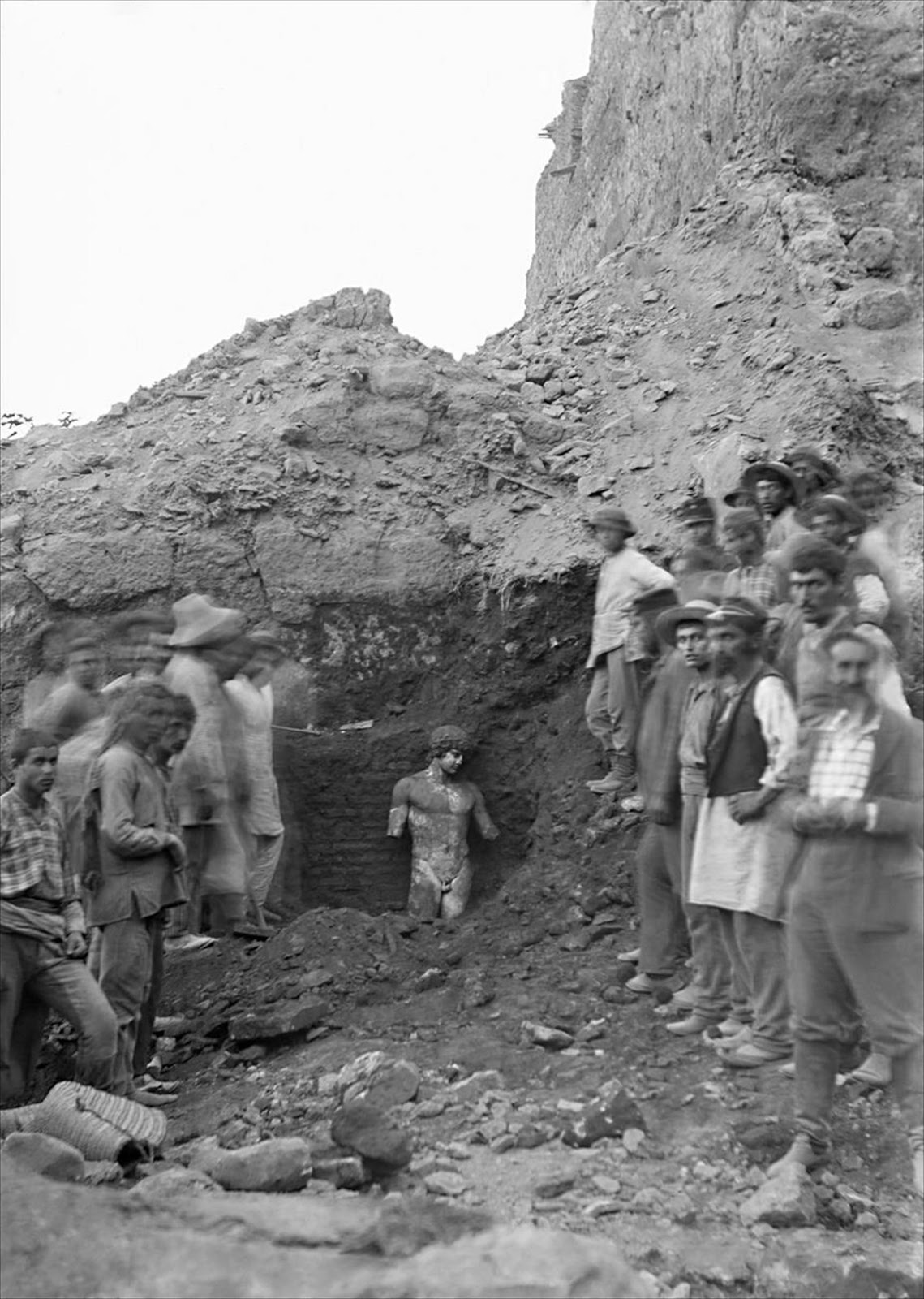 B/W photo. Delphi, Greece.